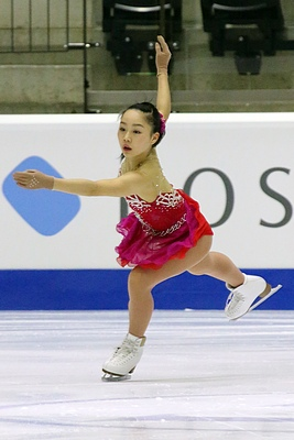 Junior World Championships 2015 (Wakaba HIGUCHI JPN – Bronze Medal)